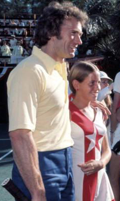 Clint Eastwood posing with a ball girl at Dinah Shore tennis tournament in Fort Lauderdale, Florida circa 1970.